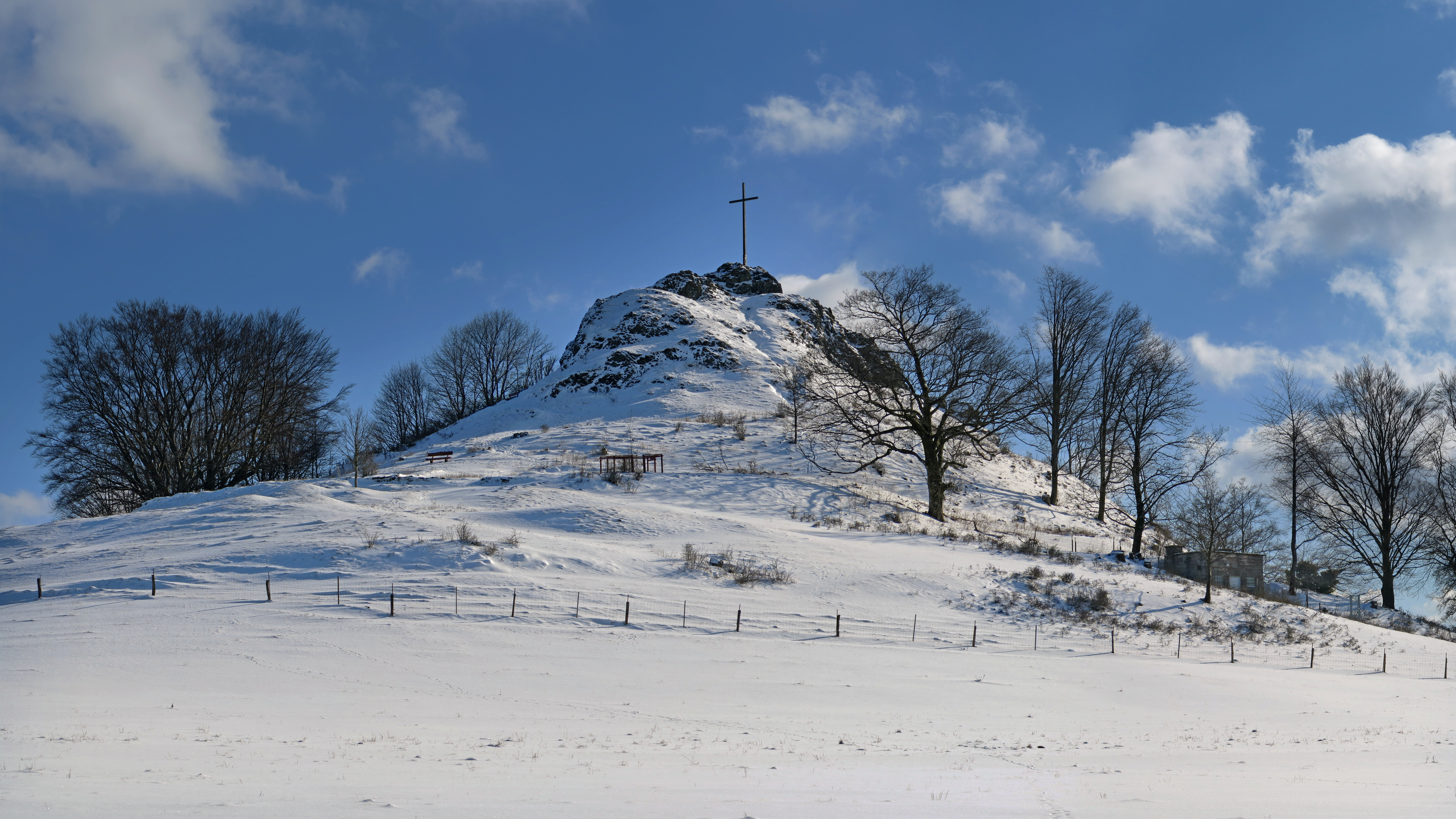 Wachtküppel in the Rhön Mountains seen from northwest